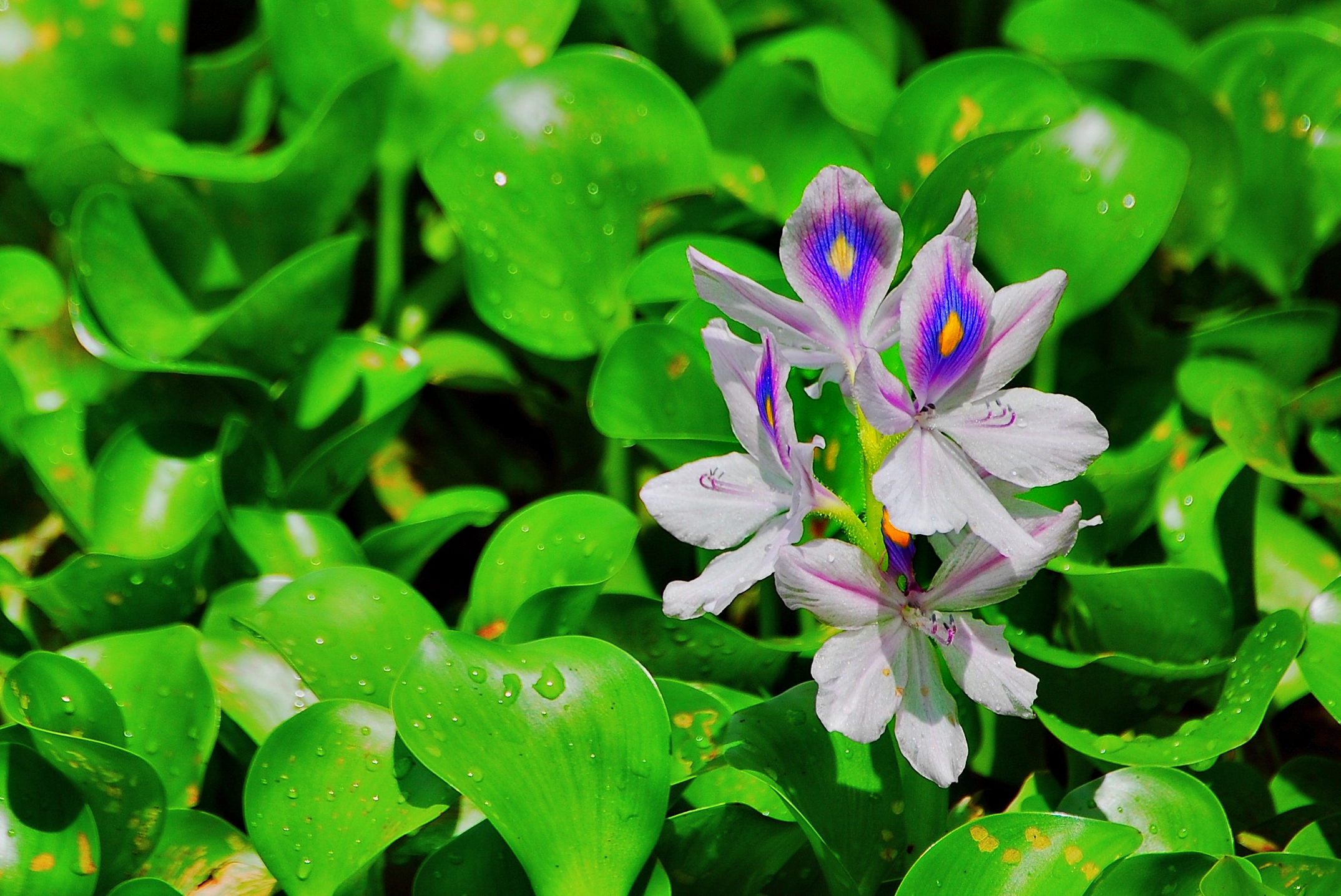 Water hyacinth